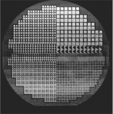 Ultra sonic image of a test patterned Au-Si eutectic bonded wafer.